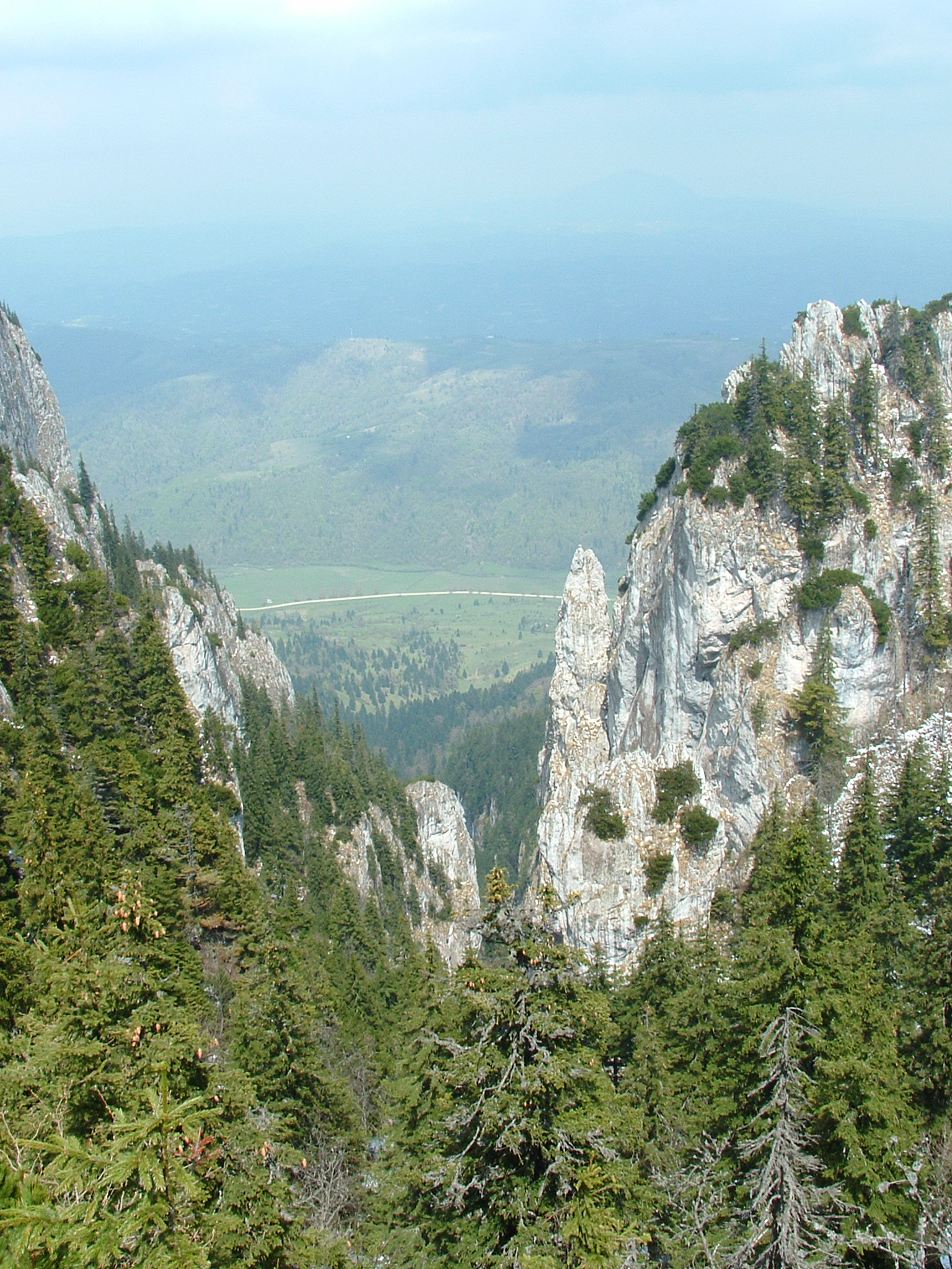 Gabi Ciuculescu